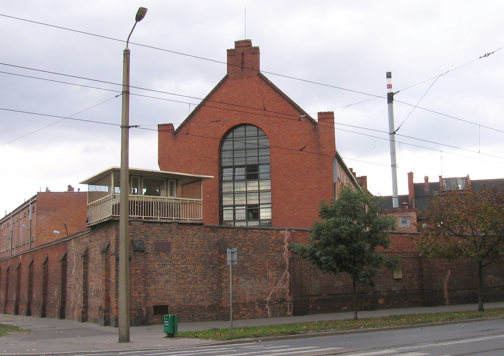 Wrocław, Poland - main prison, view from Reymonta street.